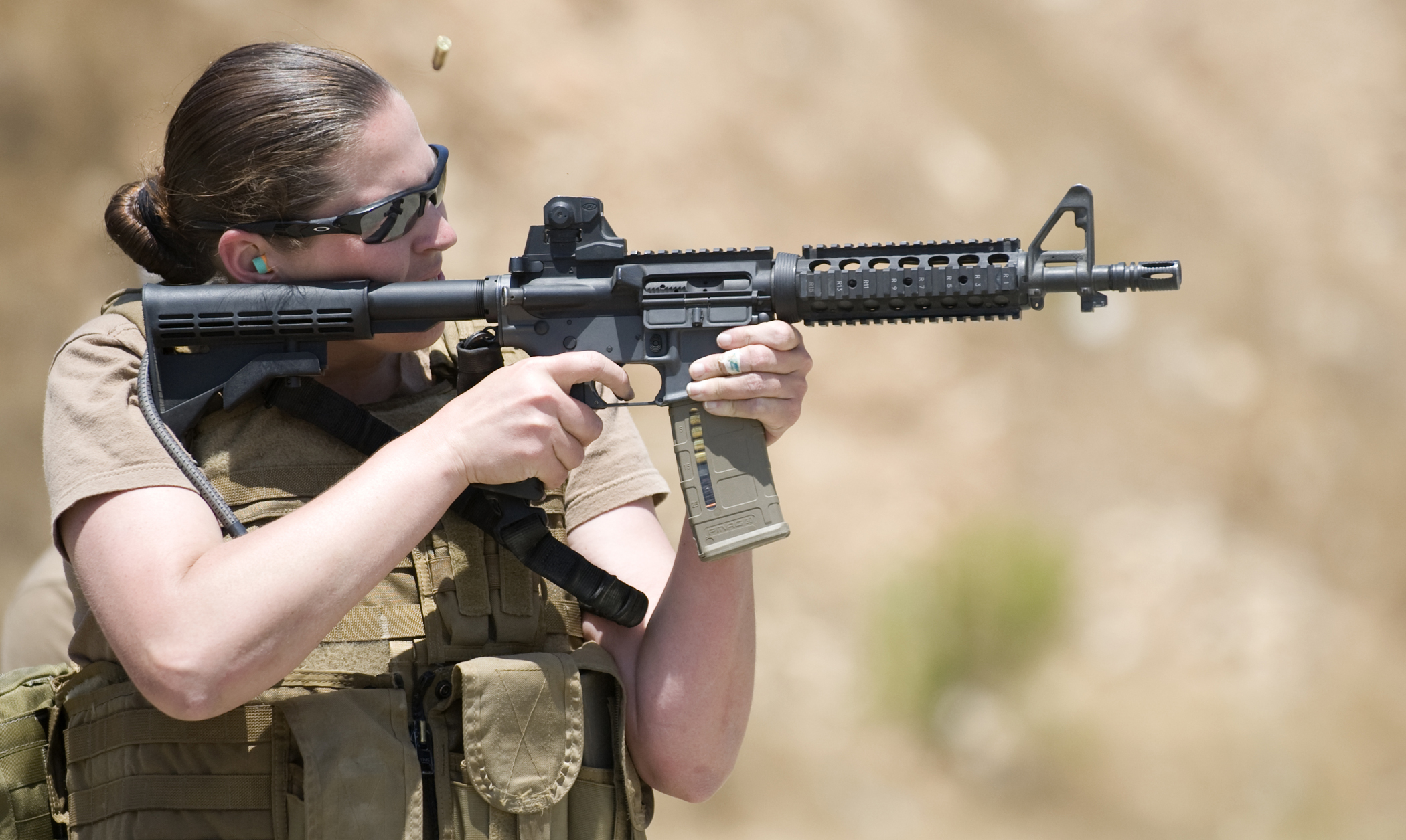 DULZURA, Calif. (July 14, 2010) Chief Mass Communication Specialist Paula Ludwick, assigned to Fleet Combat Camera Group Pacific, shoots at a target during a Navy Rifle Qualification Course. The training prepares Sailors for upcoming deployments to hostile environments. (U.S. Navy photo by Mass Communication Specialist 1st Class James Foehl/Released)